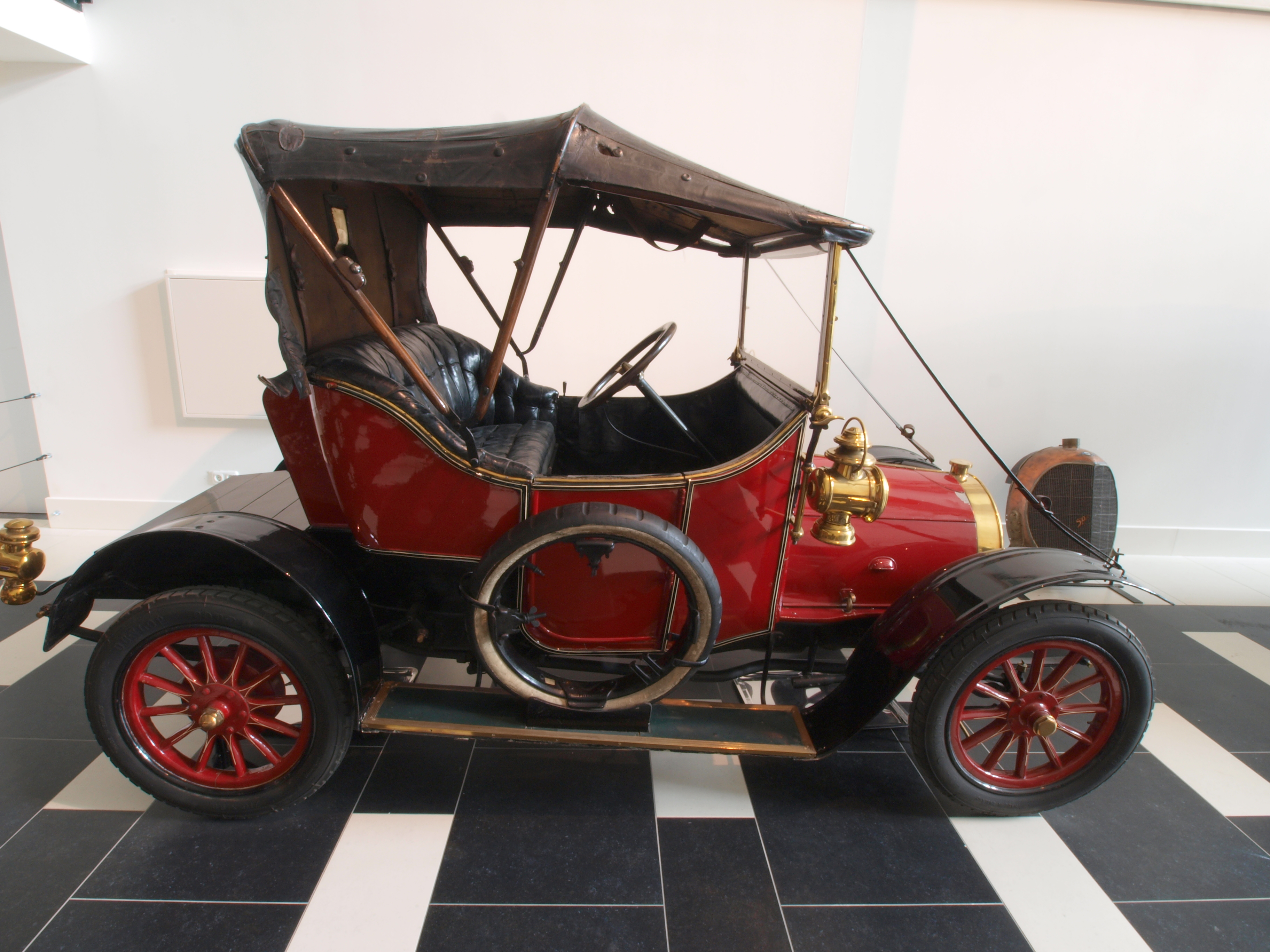 Photographed at the Louwman museum / Louwman Collection, The Netherlands.